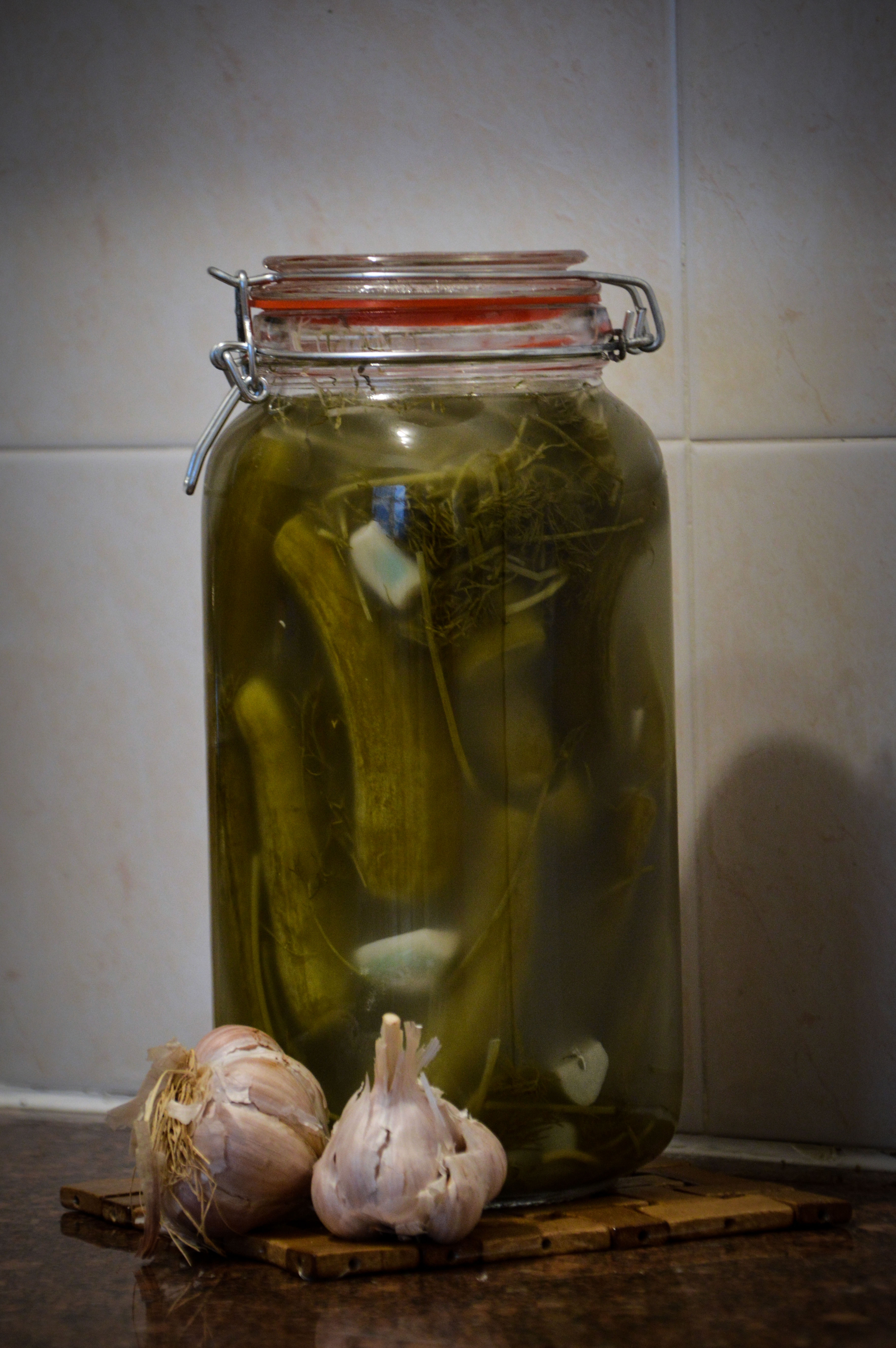 A jar of bread-and-butter picklesץ Pickled cucumbersץ